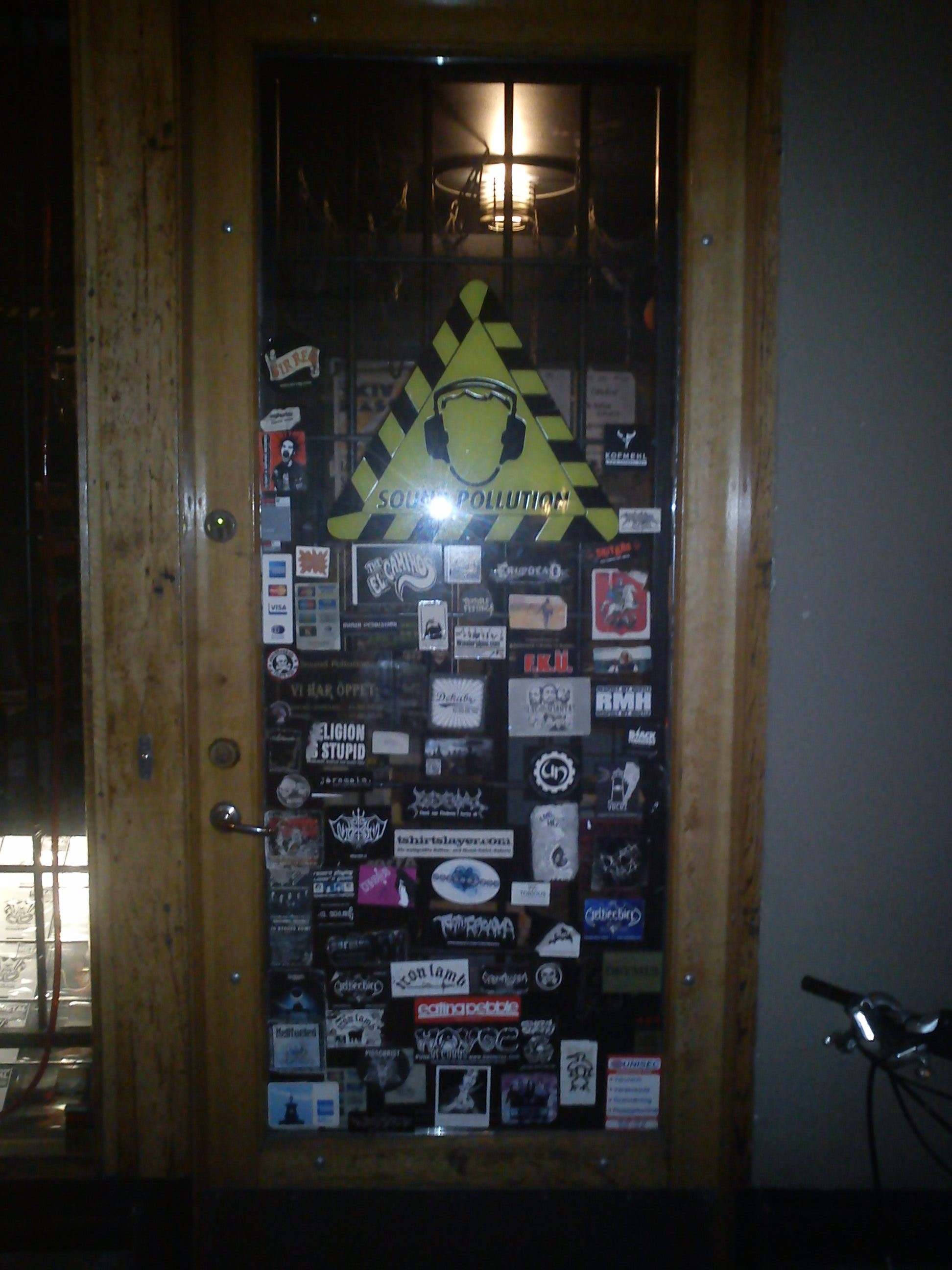 Sound Pollution, Stockholm